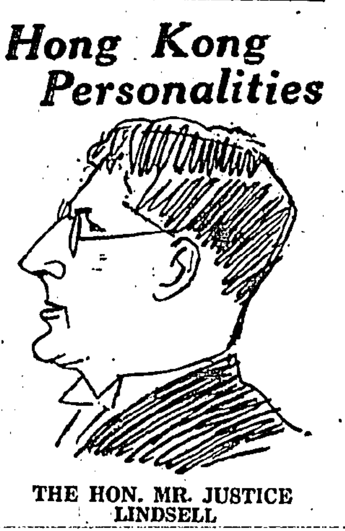 Roger Edward Lindsell, Puisne Judge of the Supreme Court of Hong Kong.